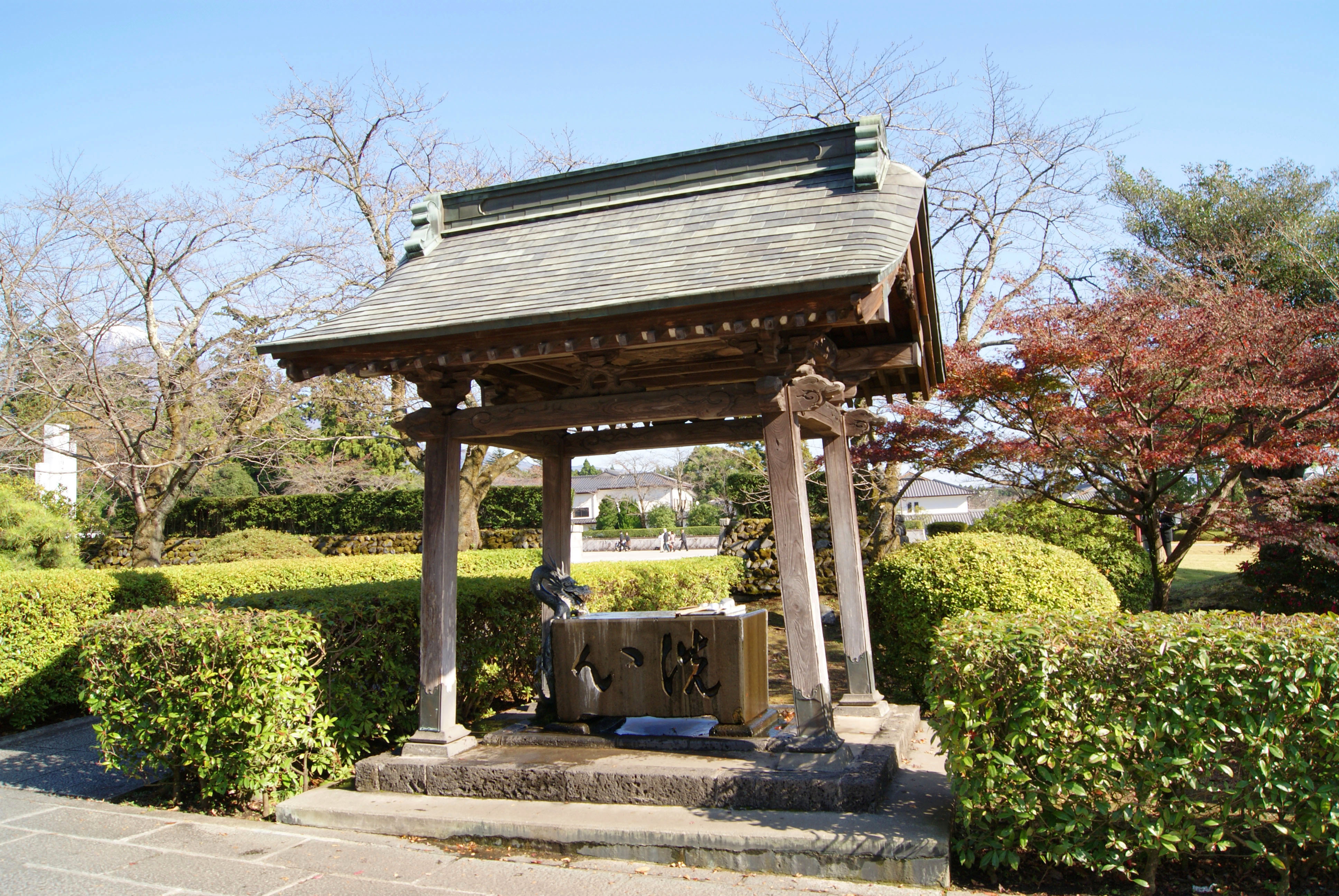 Senshin of Taiseki-ji.